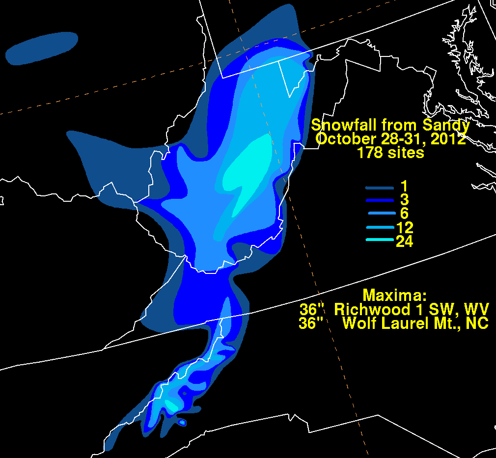 Storm total snowfall map of Hurricane Sandy during October 2012.